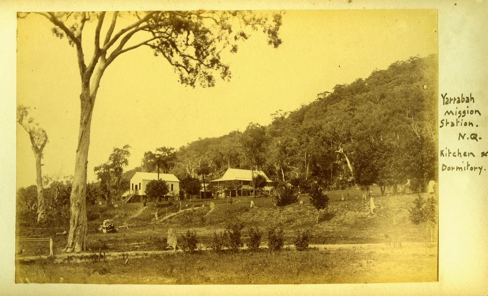 Part of the Yarrabah Mission Station in North Queensland, 1899 Photograph shows the cleared land around the dormitory and the kitchen at the Yarrabah Mission.